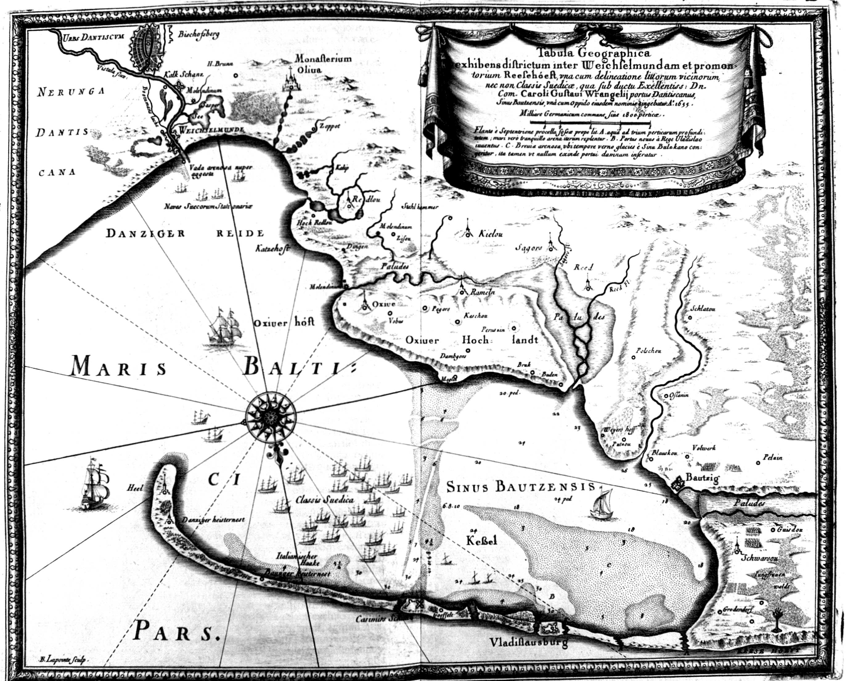 Puck Bay in 1655